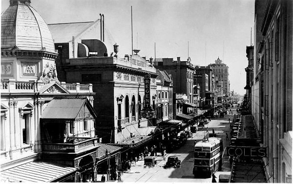 Rundle Street, Adelaide, South Australia, looking west. Since 1976, this part of the street has been part of Rundle Mall. The photo features (L-R) Adelaide Arcade, the Regent Theatre (now Regent Arcade) and an Adelaide trolleybus (no 420, with chassis by AEC). A more comprehensive description of the photo can be seen at the source web page.